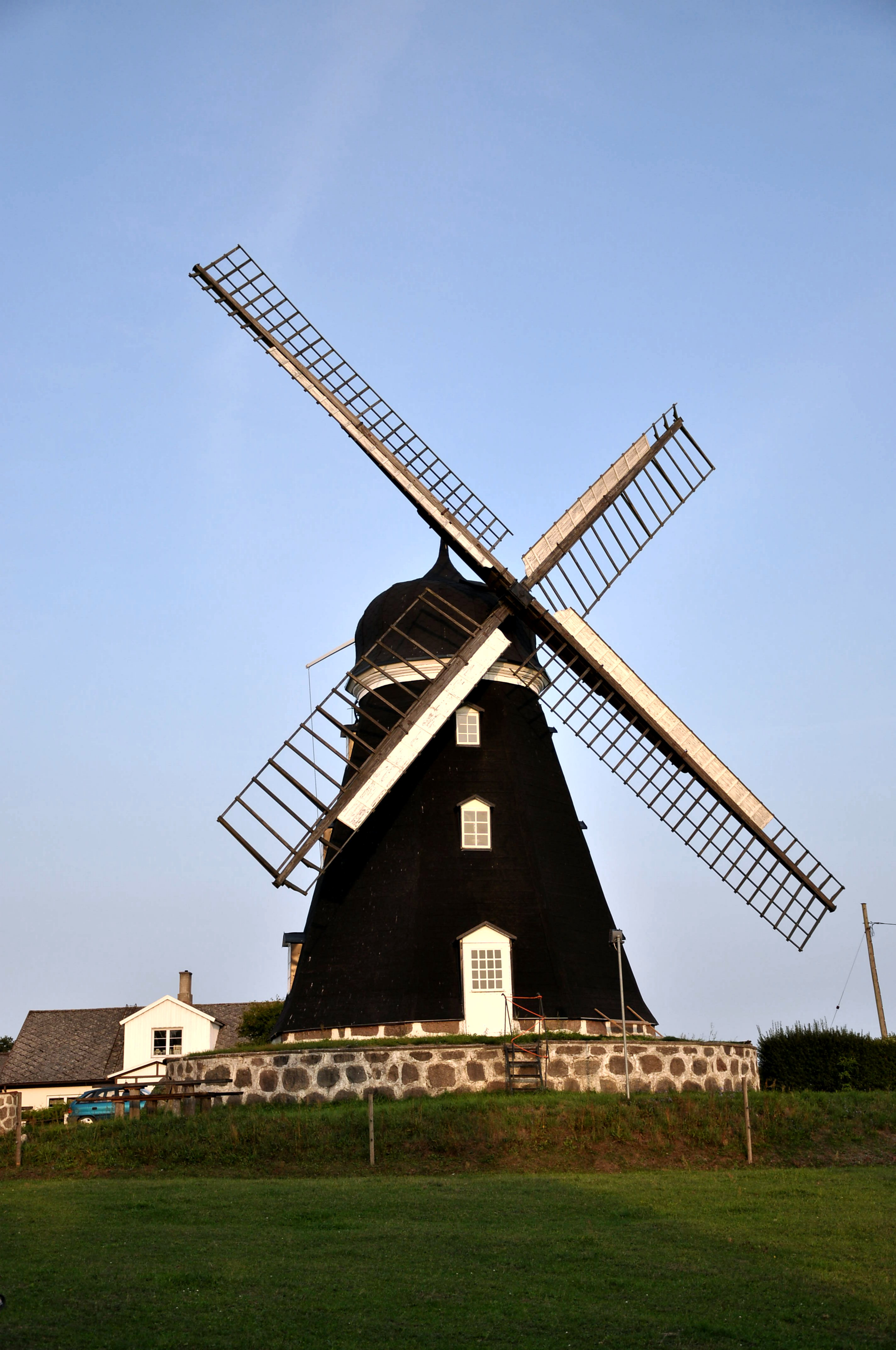 Mill in Lövestad, municipality Sjöbo, Sweden